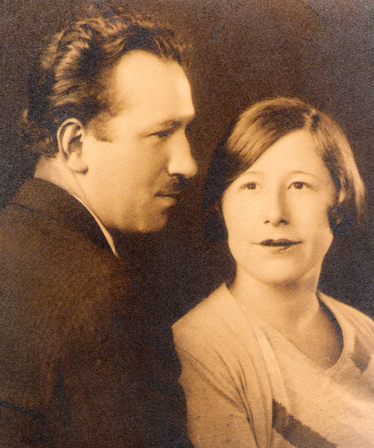 Ruth Brewer Eisenberg, "Ivory" of Ebony and Ivory and her husband, author and musician, Jacob Eisenberg.